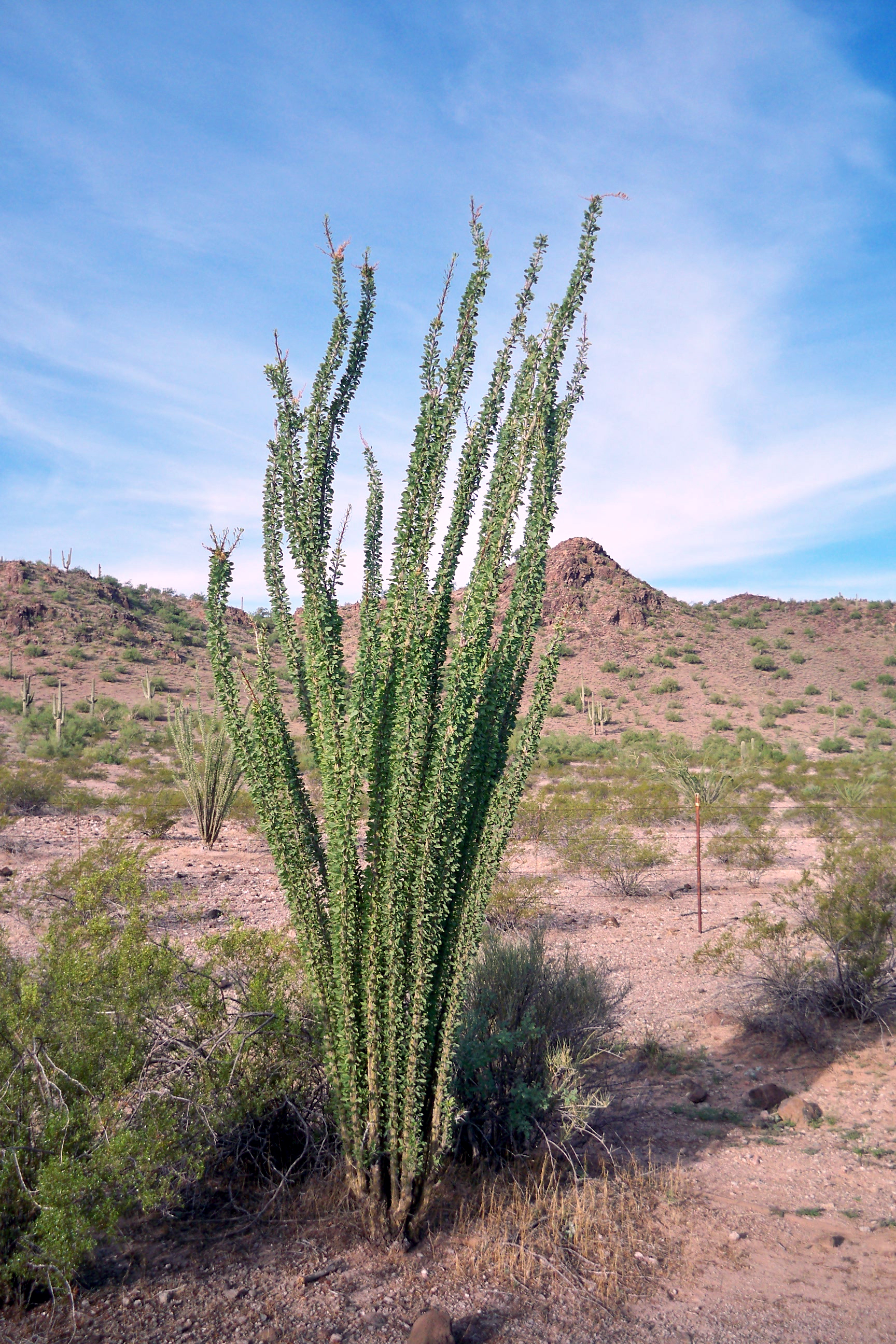 Ocotillo during the monsoon season near Gila Bend, Arizona.